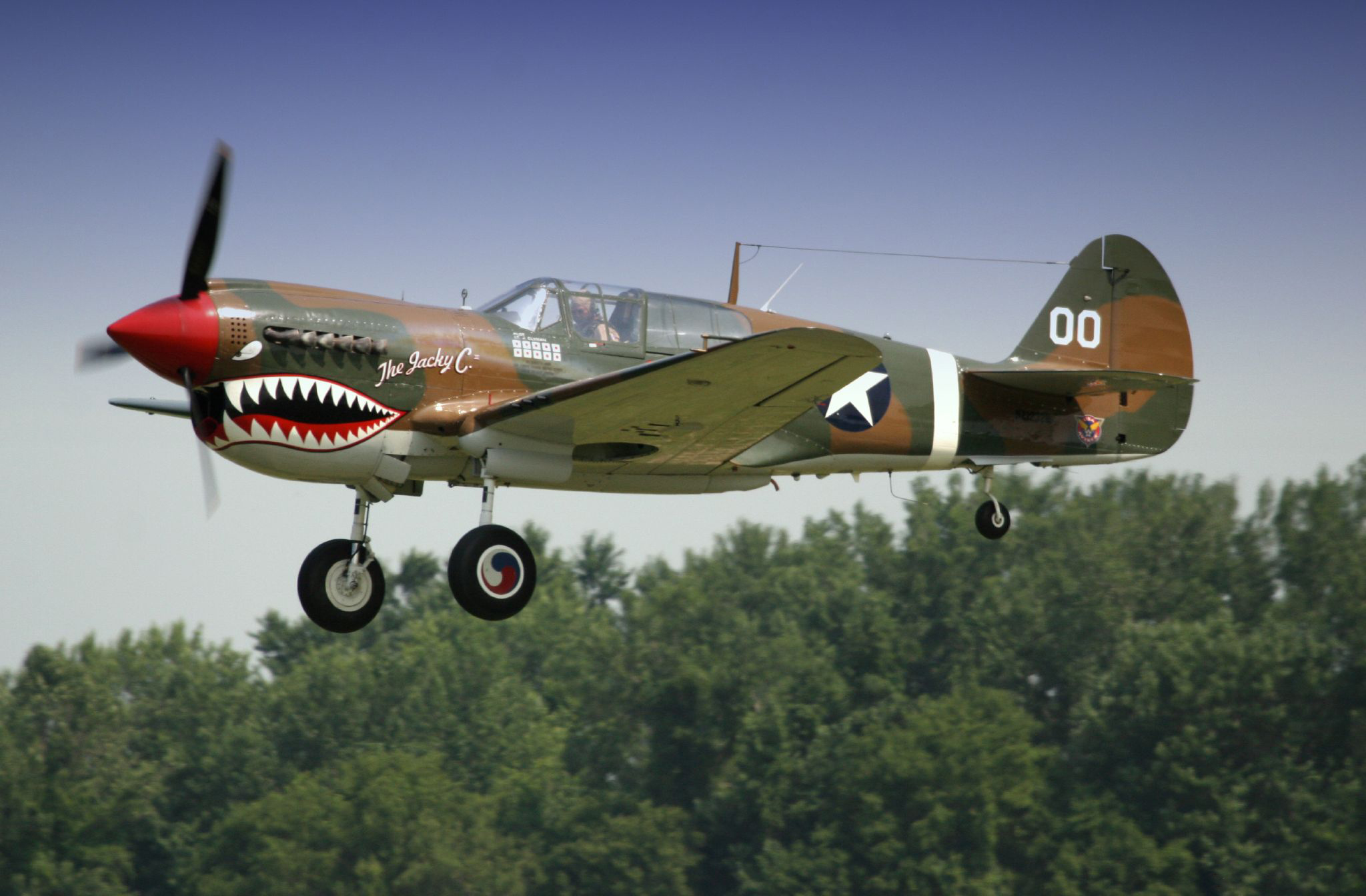 A Curtiss P-40 Warhawk, at the Geneseo Airshow